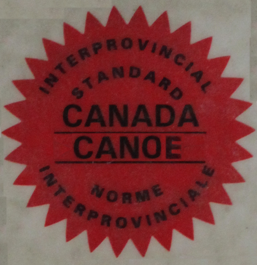 Canadian Interprovincial 'Red Seal' A certification accepted as qualification in most countries for the trade it was issued in. It is on the front of the 'wall' certificate and back of the 'wallet' card. Never leave the truck without it, and keep a copy with your passport! (note that license number was replaced with the word 'CANOE')